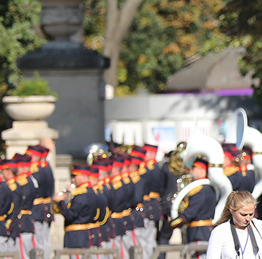 Сьогодні, 27 серпня, Міністр оборони України генерал армії України Степан Полторак взяв участь в урочистостях з нагоди відзначення 25 річниці незалежності Молдови